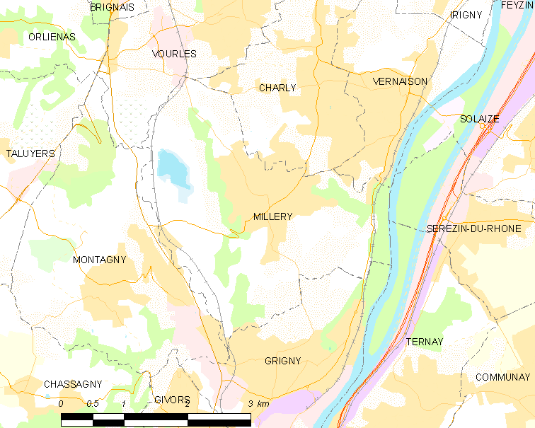 Map of French municipality